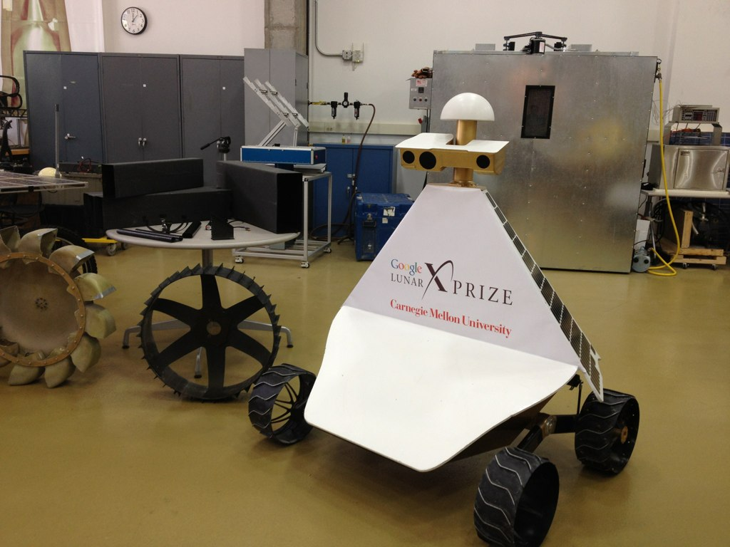 This robotic moon rover is intended to one day explore the lunar surface.